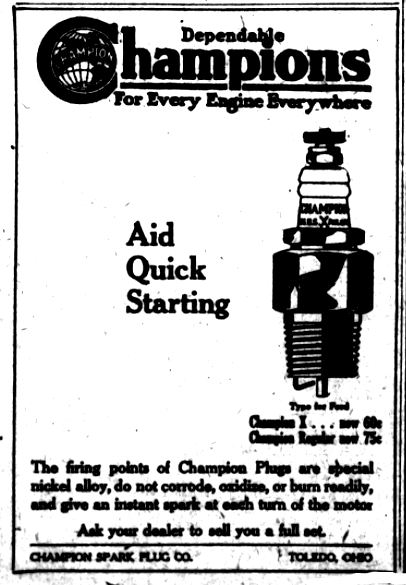 1922 newspaper ad for Champion spark plugs.